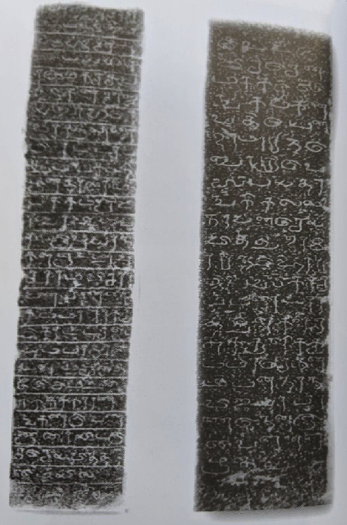 Budumuttava pillar inscriptions of Jayabahu I